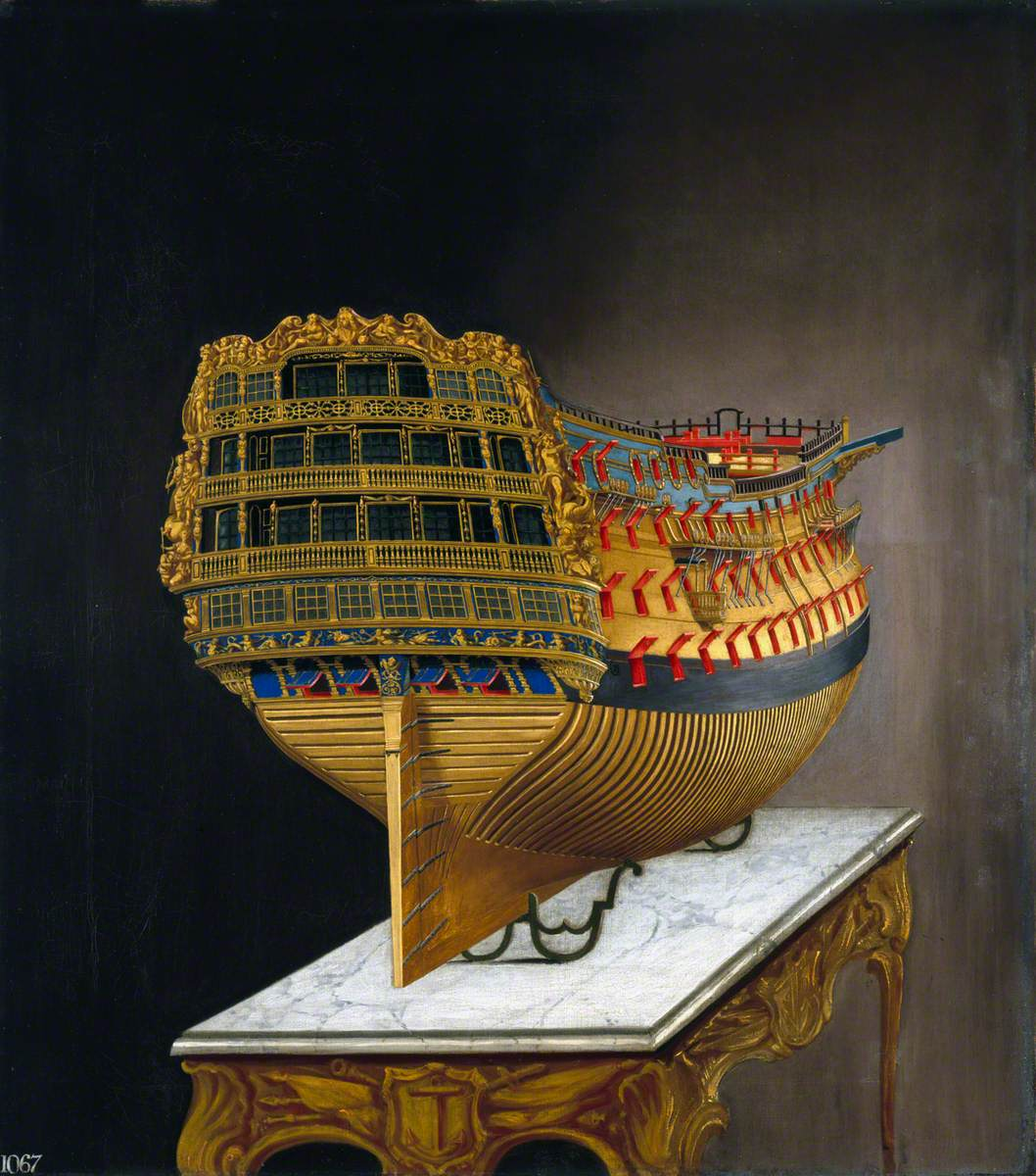 Model of HMS Victory, unknown artist Medium oil on canvas Measurements H 74.5 x W 65.5 cm Science Museum, London Accession number 1864-12/2 Acquisition method gift from Her Majesty Queen Victoria, 1864